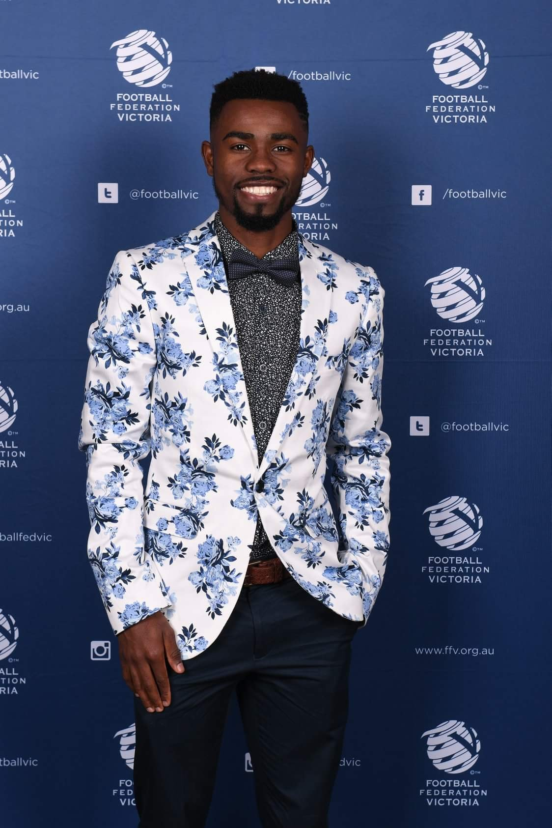 KZ Picture